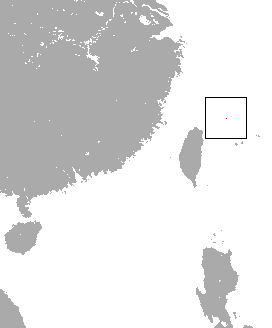 Senkaku Mole (Mogera uchidai) range